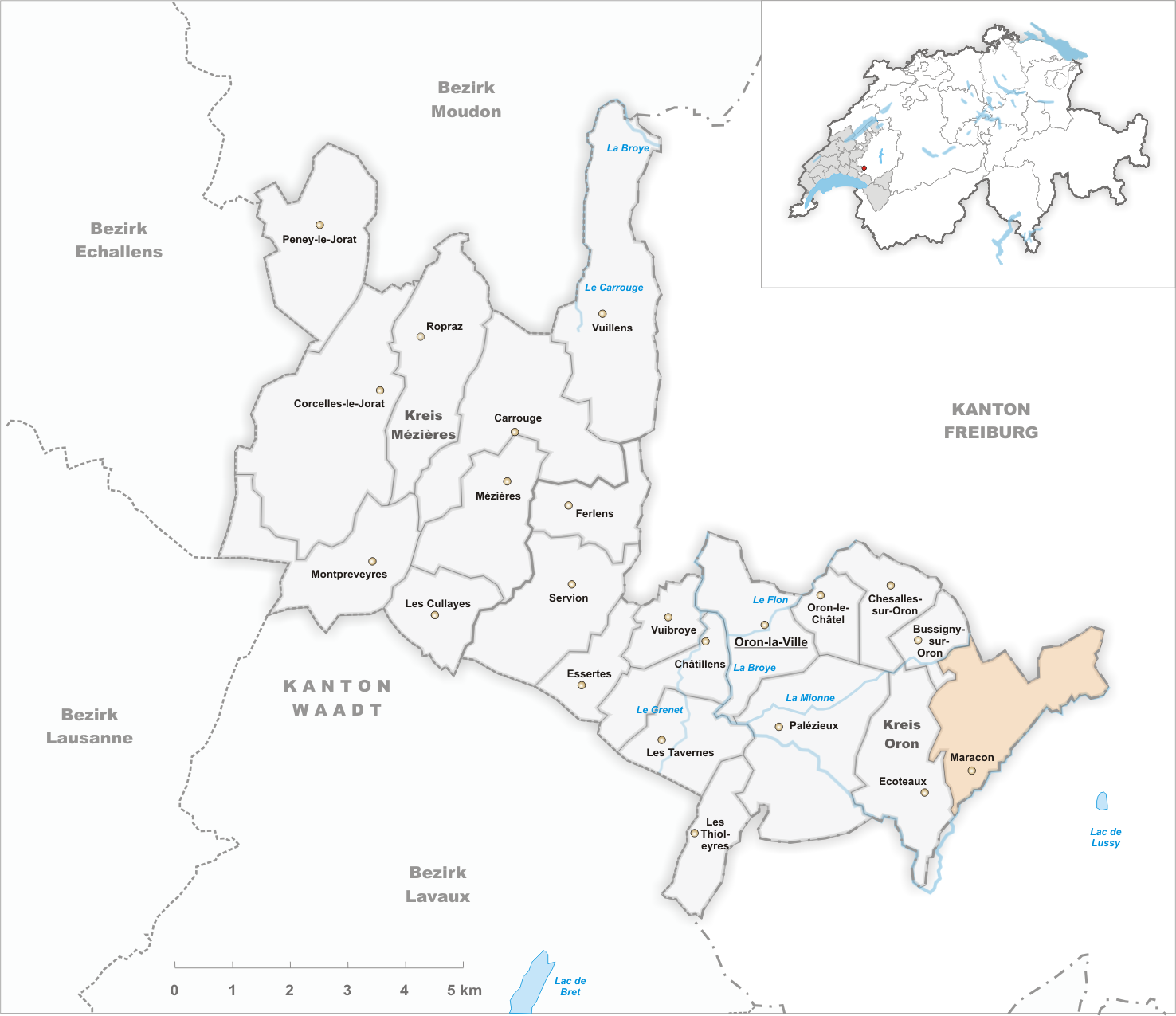 Municipality Maracon